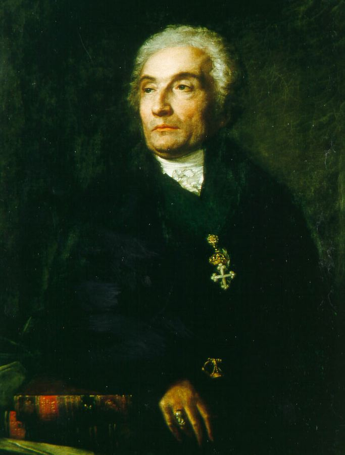 Joseph de Maistre (1753-1821), homme politique (politician)